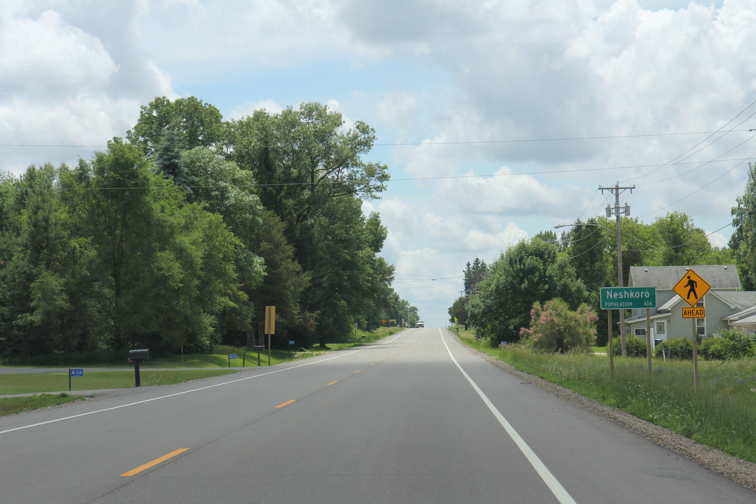 Looking south at the sign for Neshkoro, Wisconsin on Wisconsin Highway 73.